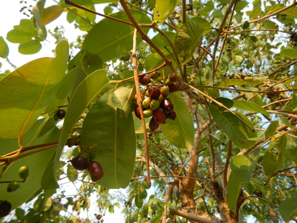 Syzygium cumini, Syszygium jambolanum or Duhat in Philippines, jambul, jambolan, jamblang, or jamun, is an evergreen tropical tree in the flowering plant family Myrtaceae in Barangays Bantug Bulalo, Magsaysay Sur and Magsaysay NorteCabanatuan City, Nueva Ecija.